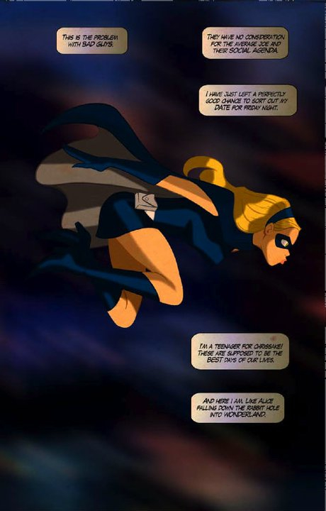 Comic Book character created by British Artist Des Taylor.